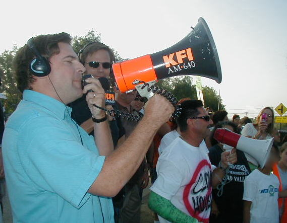 John and Ken of KFI AM 640 radio